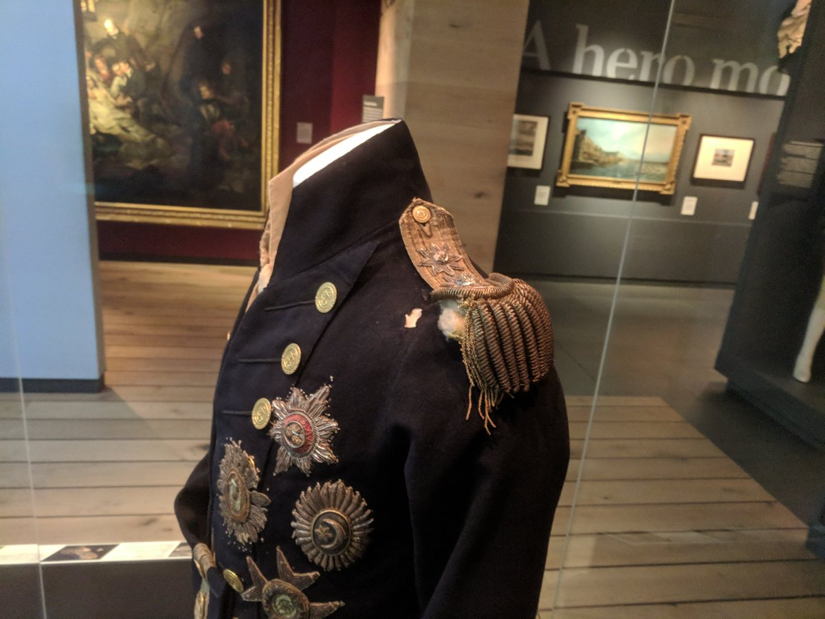 The uniform coat worn by Vice Admiral Lord Horatio Nelson at the Battle of Trafalgar, on display at the National Maritime Museum in Greenwich, England. This view of the coat shows the bullet hole in the left shoulder from the sharpshooter's bullet which killed Nelson, as well as the decorations on the left breast and the insignia on the epaulette.